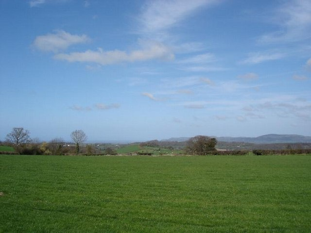 Cefn Berain fields